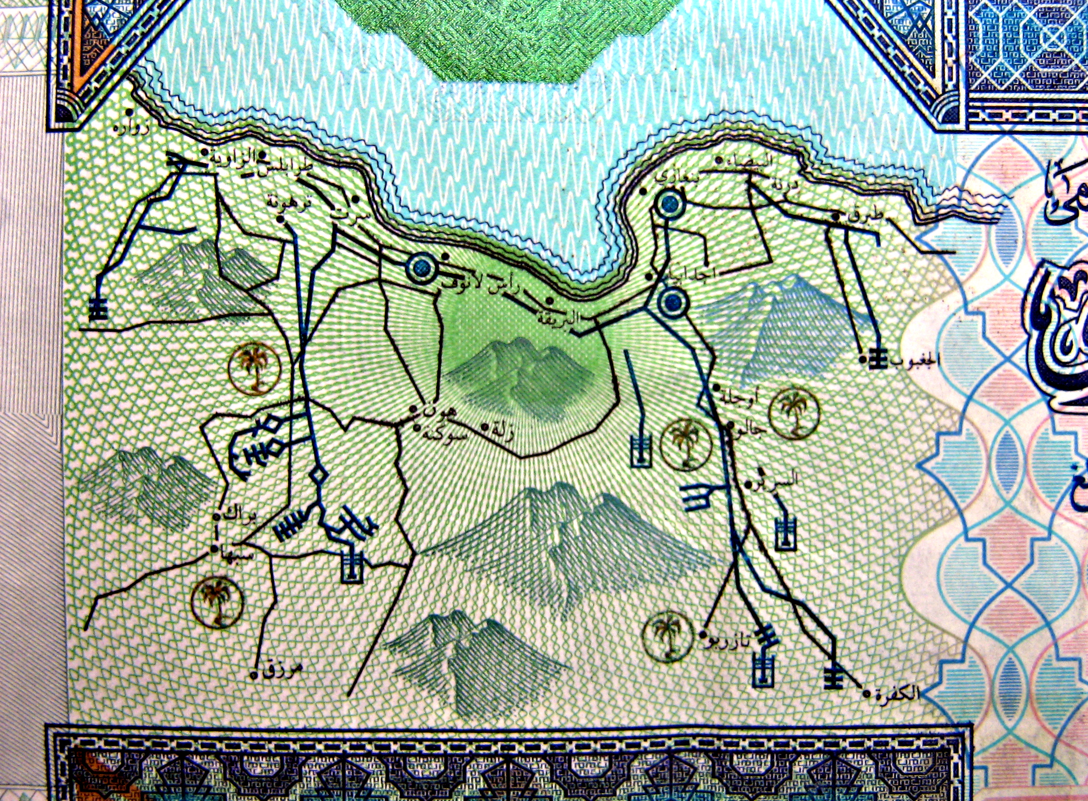 Map of the Great Manmade River water project in Libya - as seen on the 20 dinar currency.